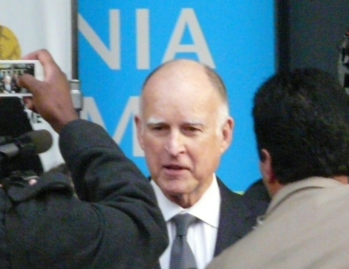 California Governor Jerry Brown attending the California Museum Hall of Fame ceremony March 20 2013